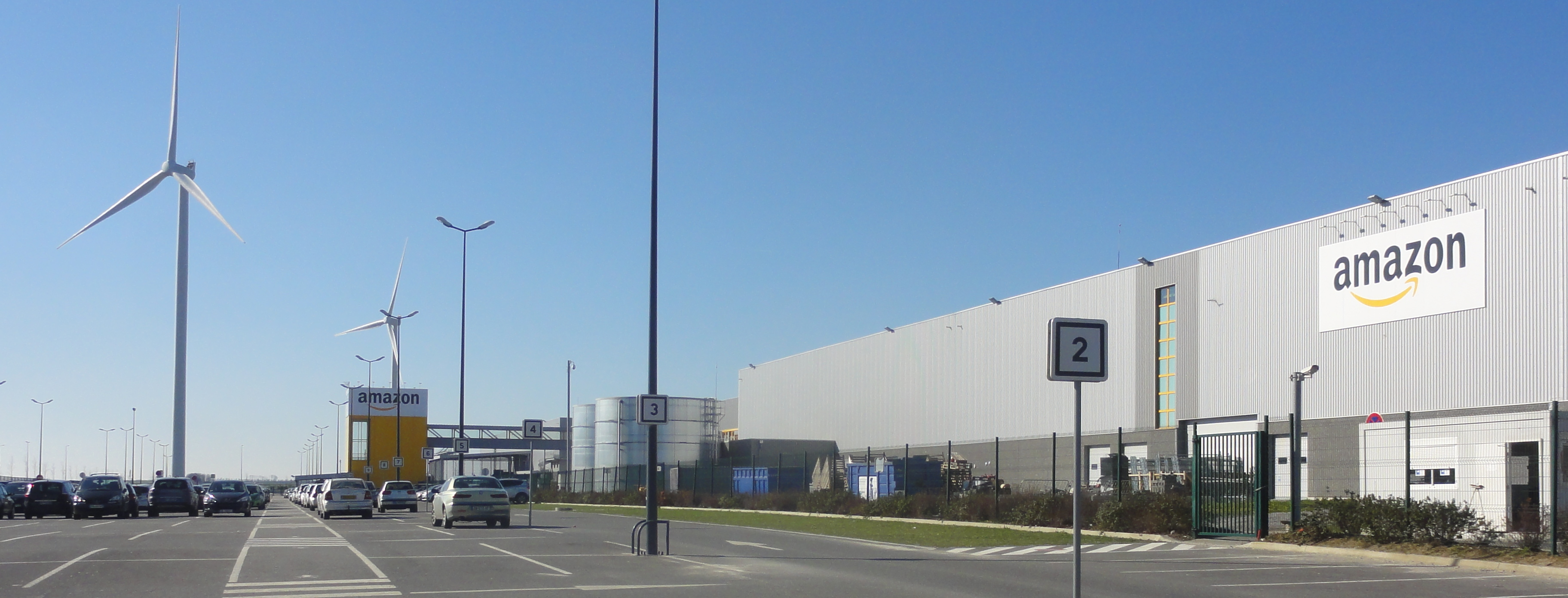 Depicted place: Q68668341